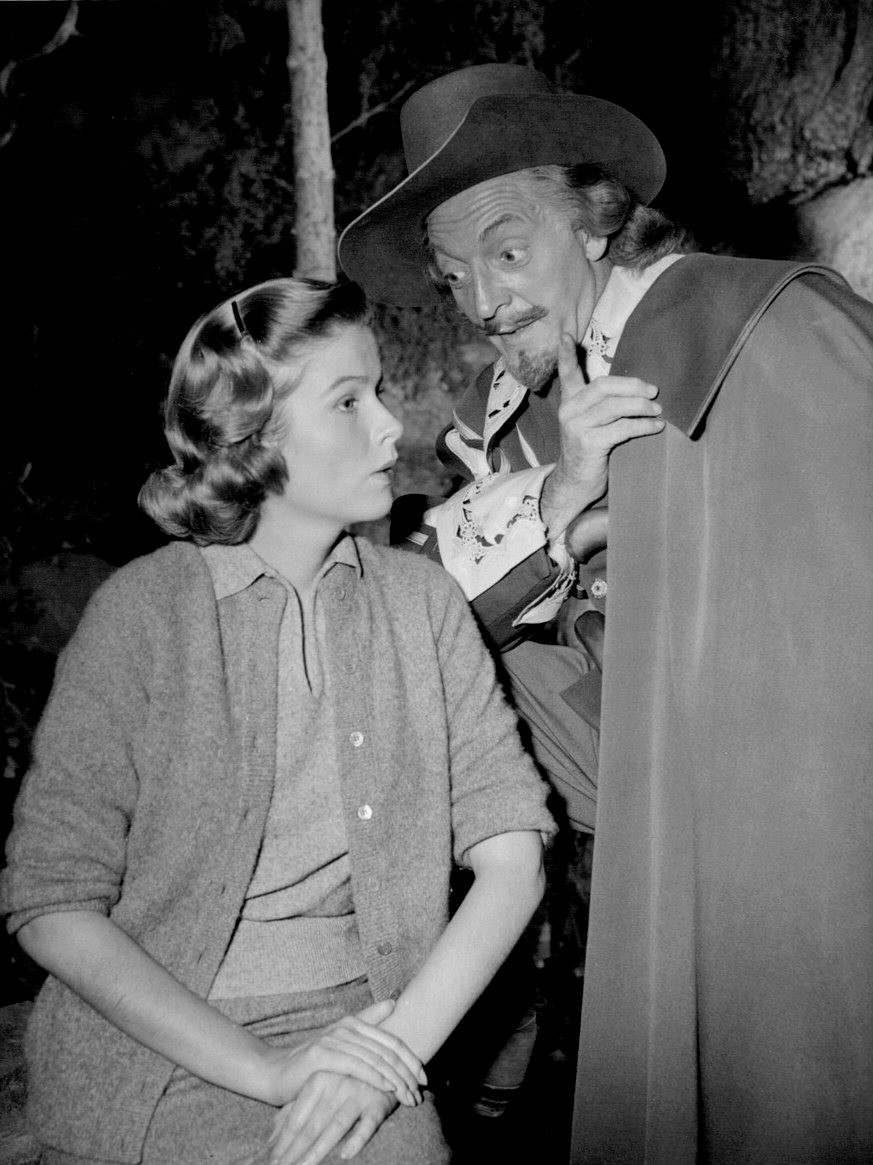 Photo from the 1956 television presentation of the Maxwell Anderson play High Tor. The play was adapted as a musical when it aired on Ford Star Jubilee. In this scene, Judith (Nancy Olson) searches for Van (Bing Crosby), finding him with the spirit Lisa. The spirit of a sailor (Everett Sloane) then appears to her to say that Van will return to her in the morning.